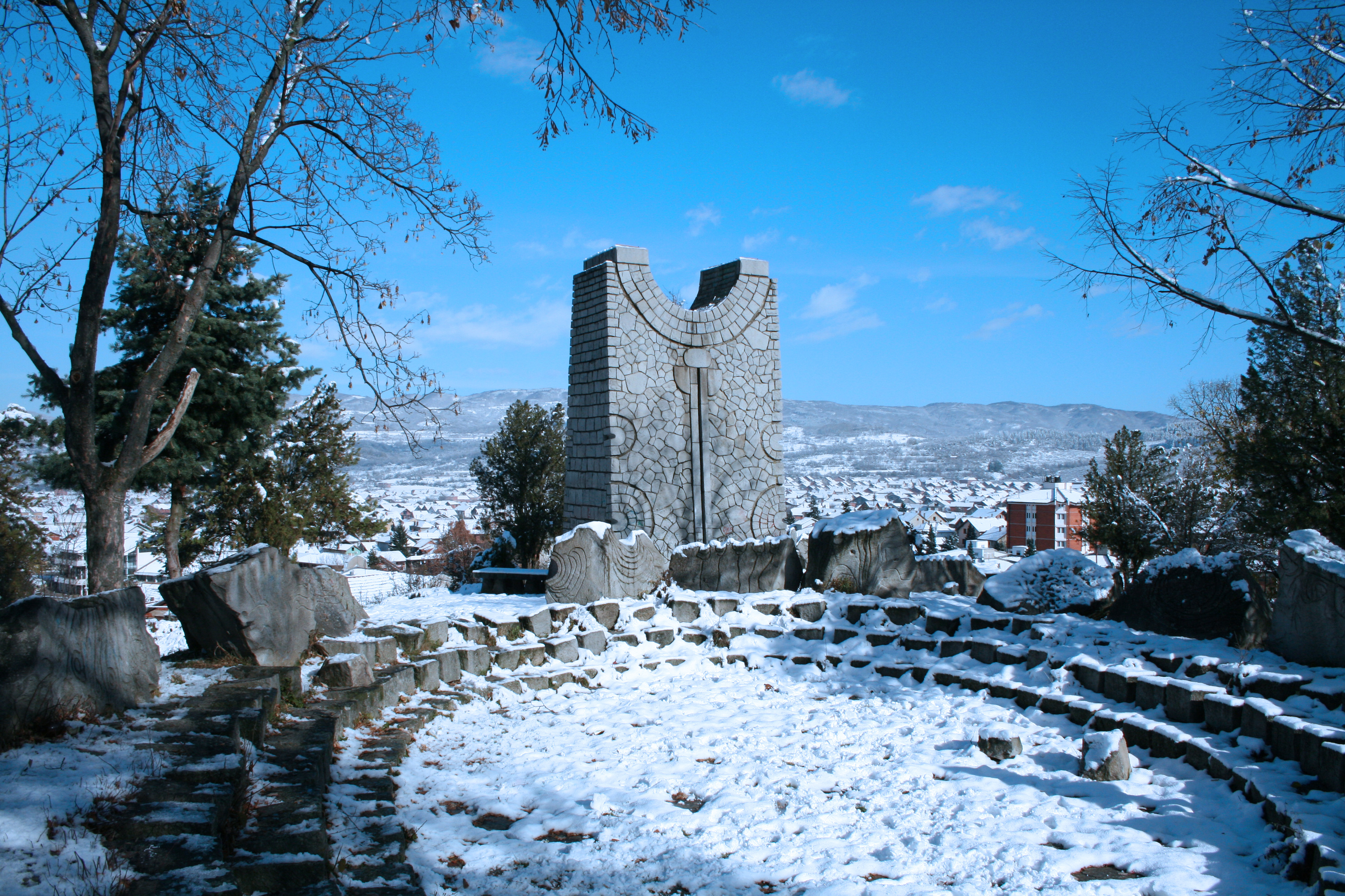 Vlasotince war monument, Shrine to the fallen freedom fighters, Staro groblje, "Old cemetery" Bogdan Bogdanović (architect), commemorative architecture, places of commemoration, Serbia, Former Yugoslavia, winter